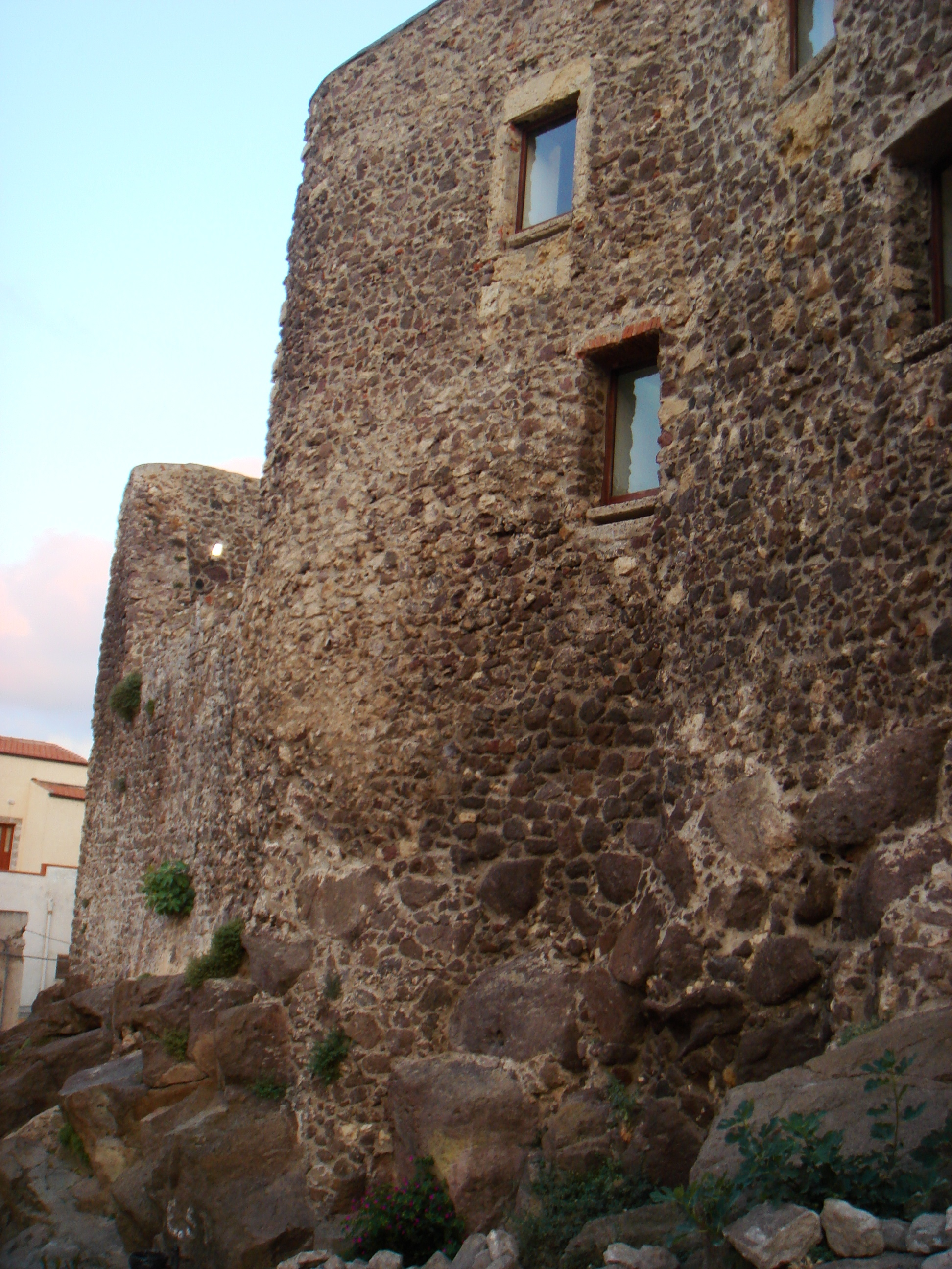 Castle of Castelsardo (Sardinia). Picture by Stefano Bolognini.